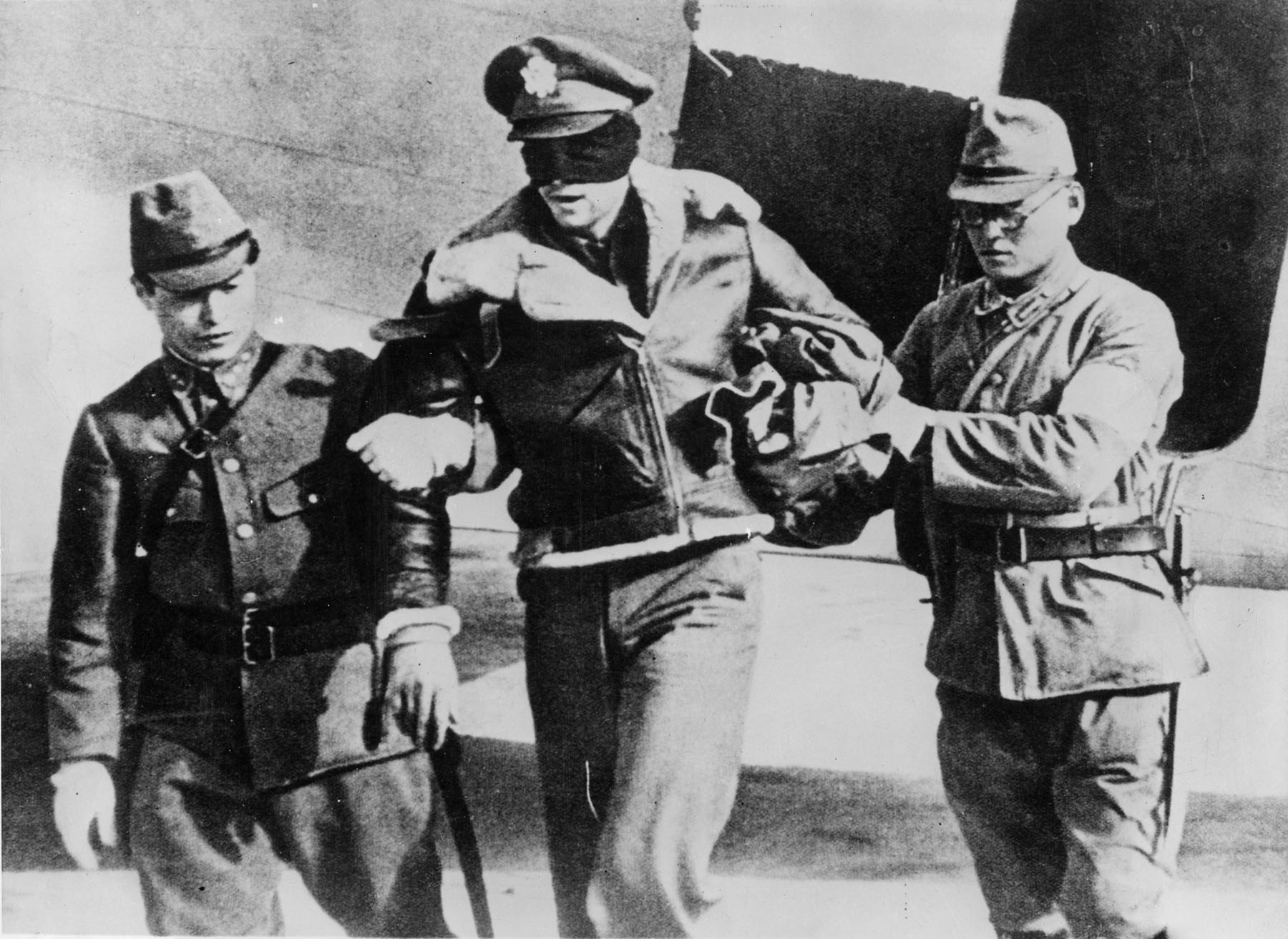 U.S. Army Air Force Lt. Robert L. Hite, blindfolded by his captors, is led from a Japanese transport plane after he and the other seven flyers were flown from Shanghai to Tokyo. Hite was co-pilot of crew 16 (B-25B s/n 40-2268 Bat out of Hell, 34th Bomb Squadron) of the "Doolittle Raiders". After about 45 days in Japan, all eight were taken back to China by ship and imprisoned in Shanghai. On 15 October 1942 three were executed, one died in captivity. The four others, including Hite, were liberated on 20 August 1945.